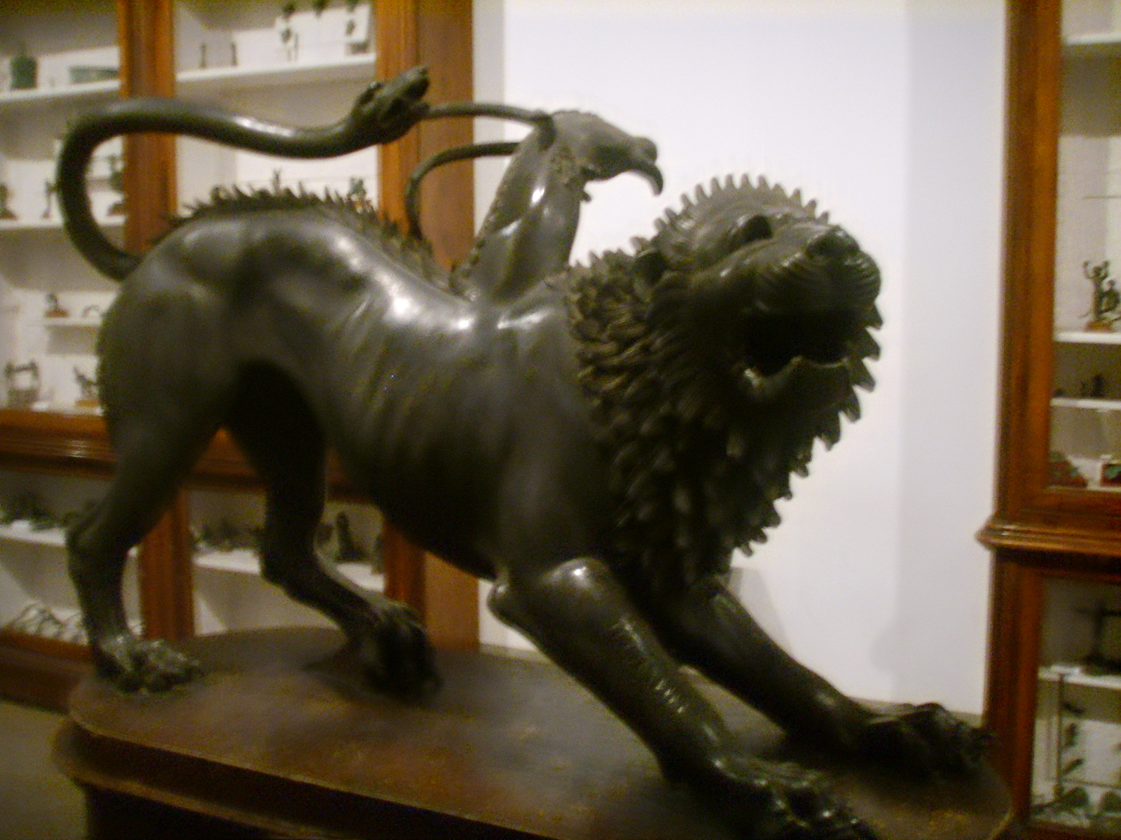 The so called "'Chimera of Arezzo" is an Etruscan bronze statue of the mythological monster chimera, on display in the Archaeological museum in Florence, Italy.